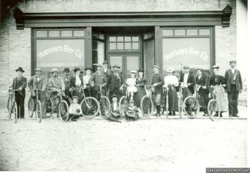 The Fort Qu'Appelle cycling club in front of the local Hudson's Bay store.